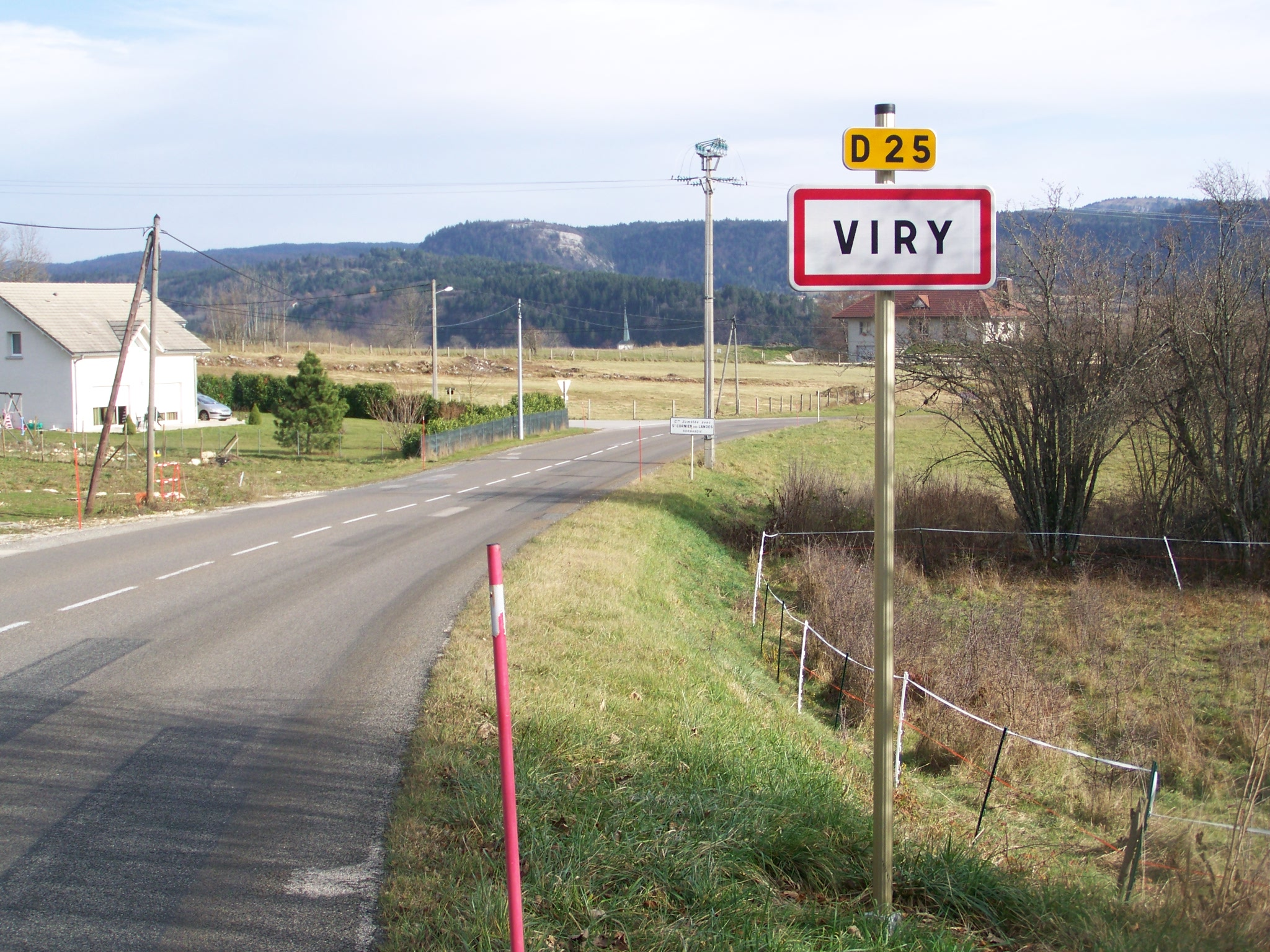 Sign welcoming to the little commune of Viry in the French department of Jura, when arriving from Ain.